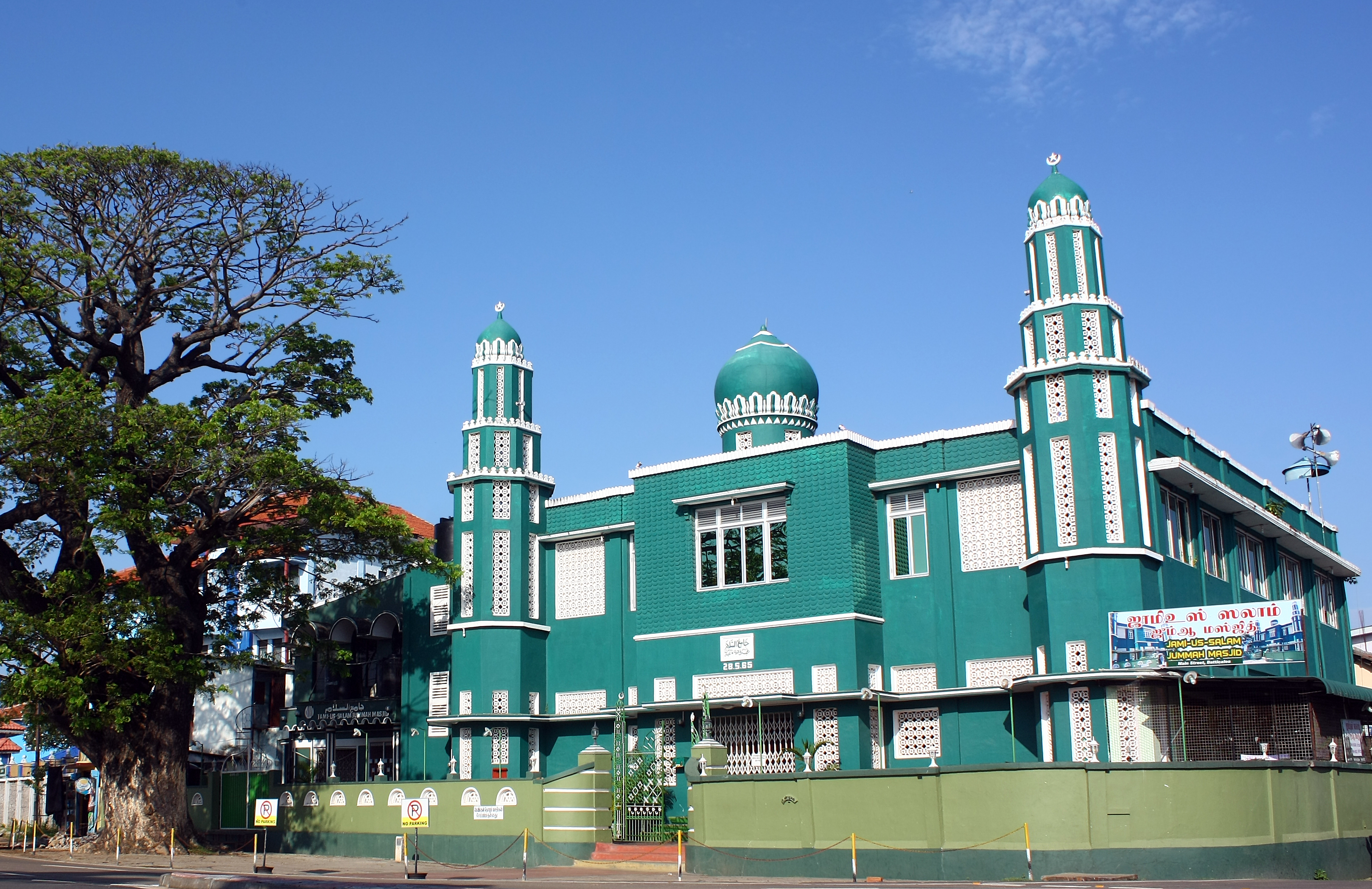 Jami-Us-Salam Jummah Masjid - A mosque in Batticaloa town